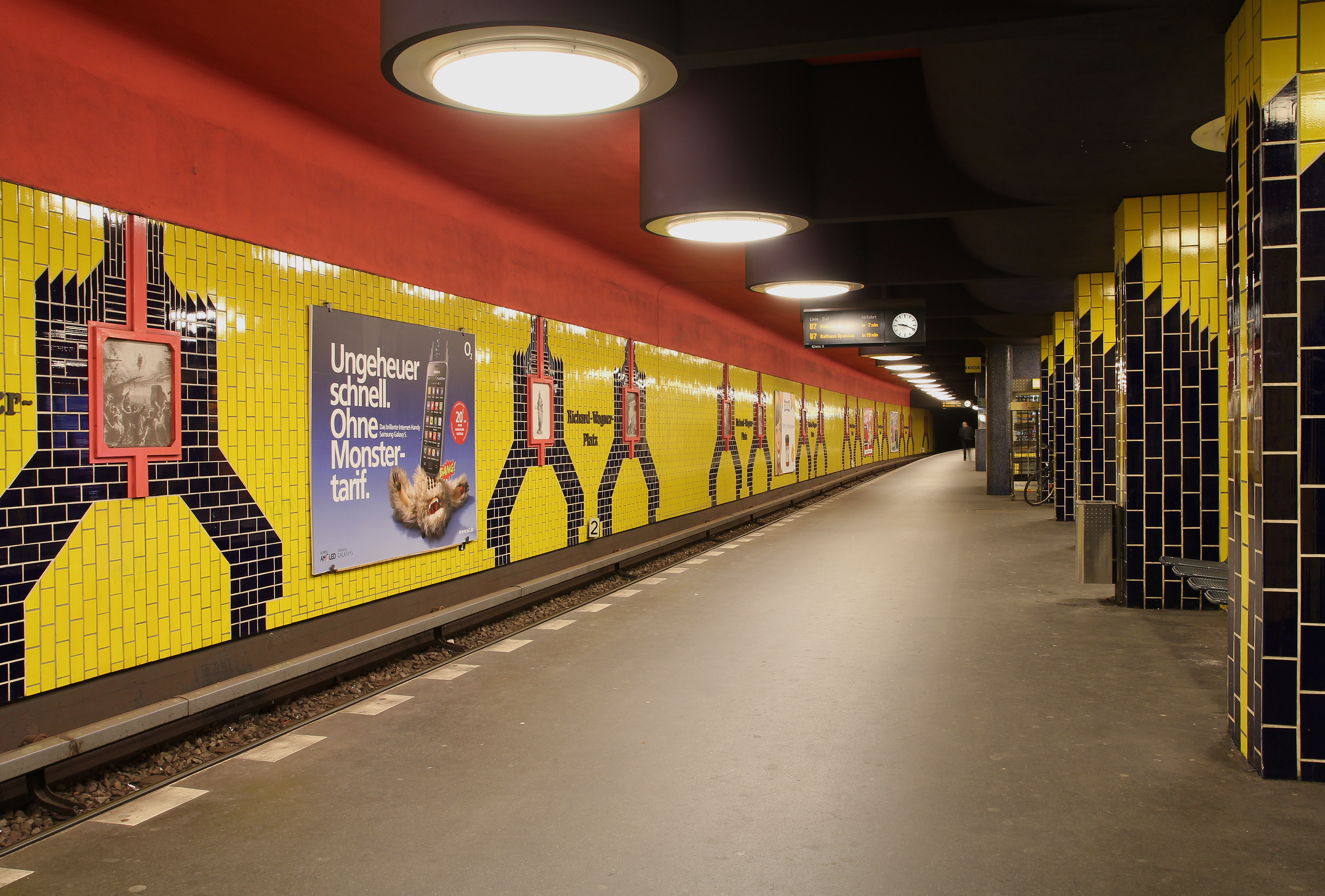 Underground station "Richard Wagner Platz", Berlin, 2010